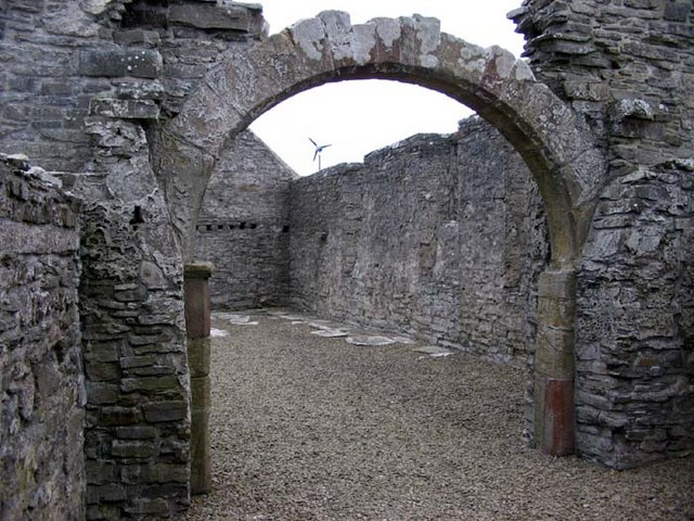 Stone arch at Pierowall Church, Pierowall Westray, Orkney